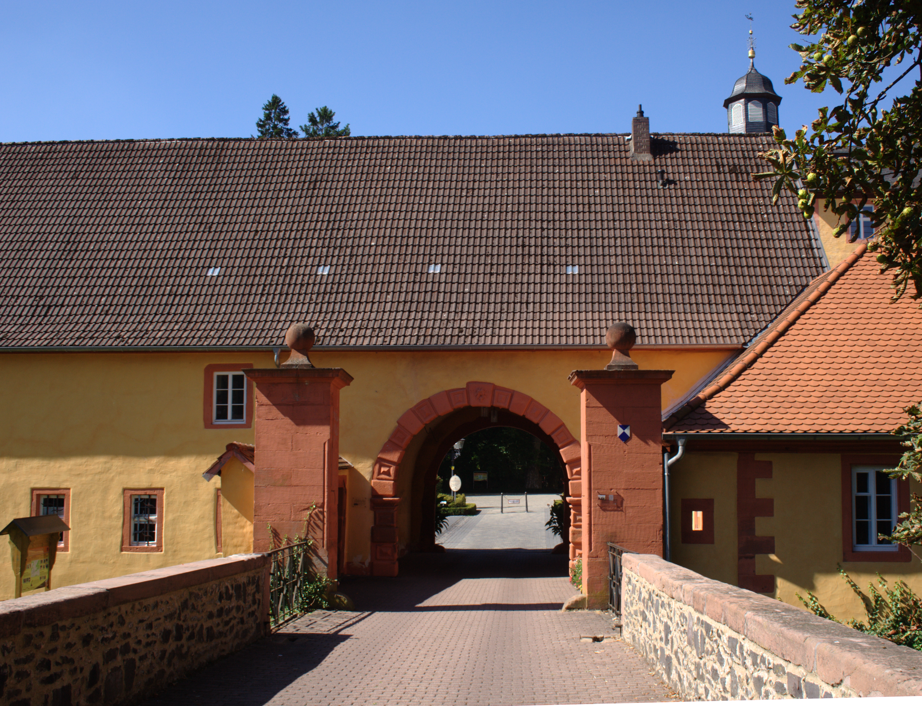 Gate and Bridge (now local Museum of Art History) Castle Gedern Schlossberg 9/ Hesse / GermanyThis is a photograph of an architectural monument.